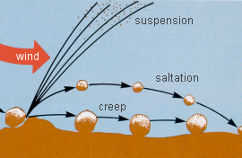 Diagram showing the mechanics of saltation (geology).